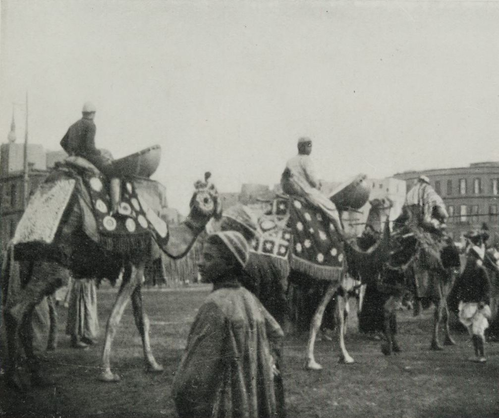 “A CAMEL BAND IN A PROCESSION HAS GONE TO MEET A PILGRIM RETURNED FROM MECCA, OUTSIDE THE RAILWAY STATION.The accoutrements of the camel are of scarlet cloth decorated with pieces of mirror and small cowrie shells.”Black-and-white photograph.